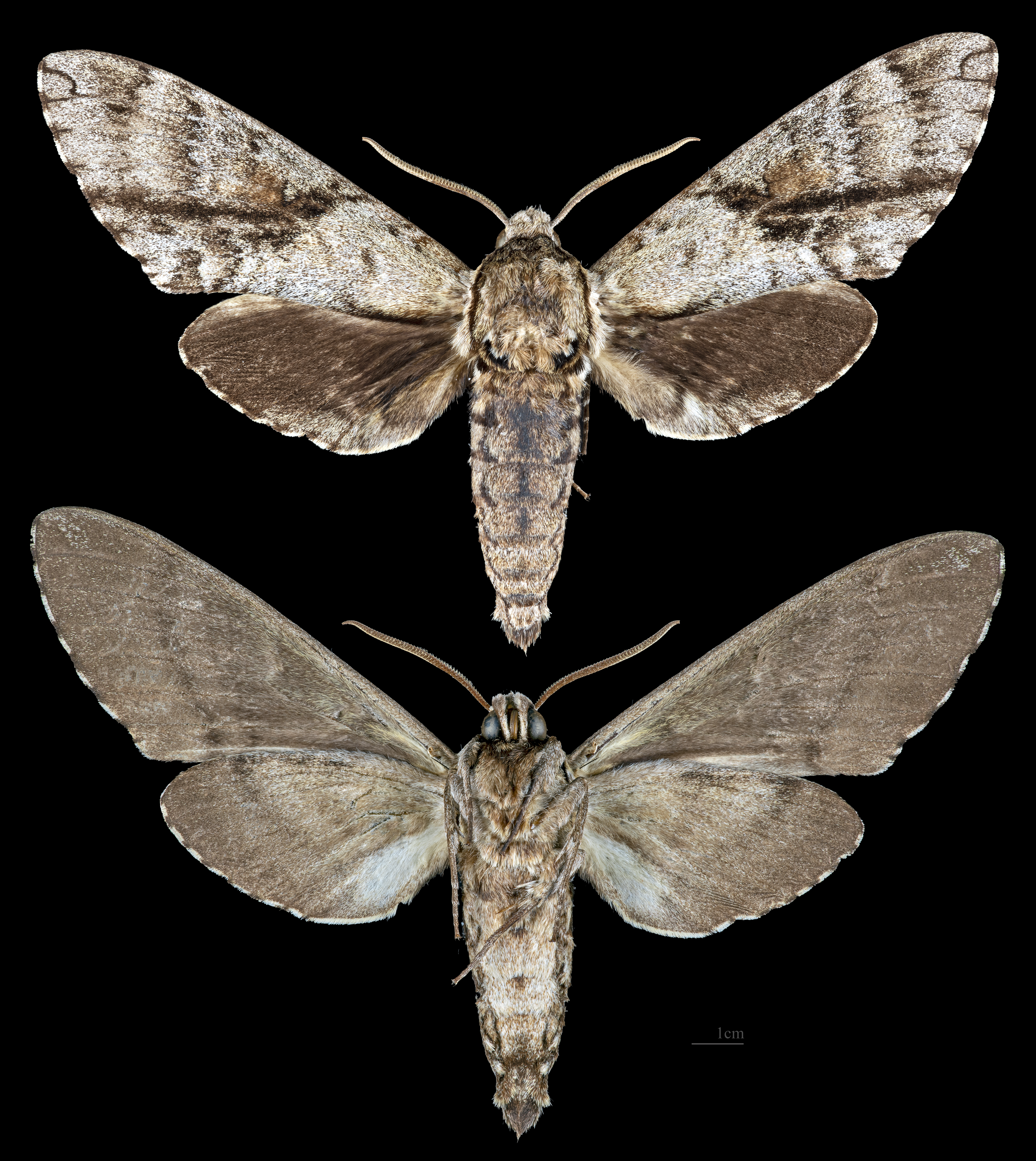 Manduca jasminearum - Two views of same specimen Collection of the Mathematician Laurent Schwartz